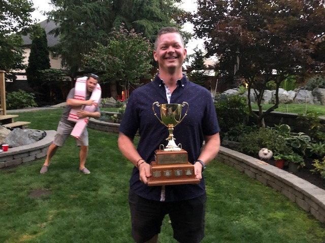 2020 Wile Cup champion Ben Park poses with the trophy, with Brian Martin in the background.